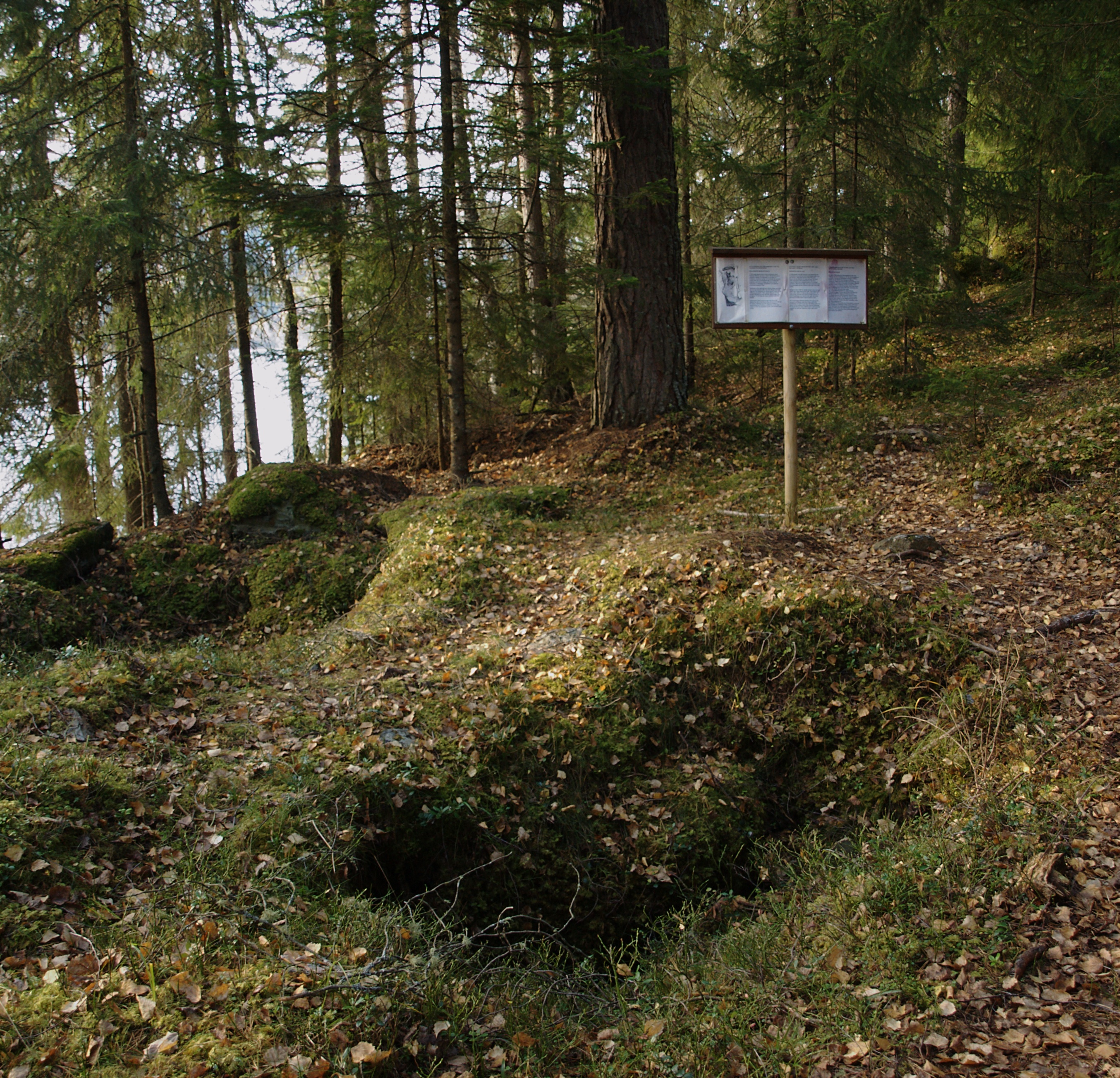 Remains of a megalithic tomb at Valdres Folkemuseum on Storøya outside Fagernes in Nord-Aurdal.